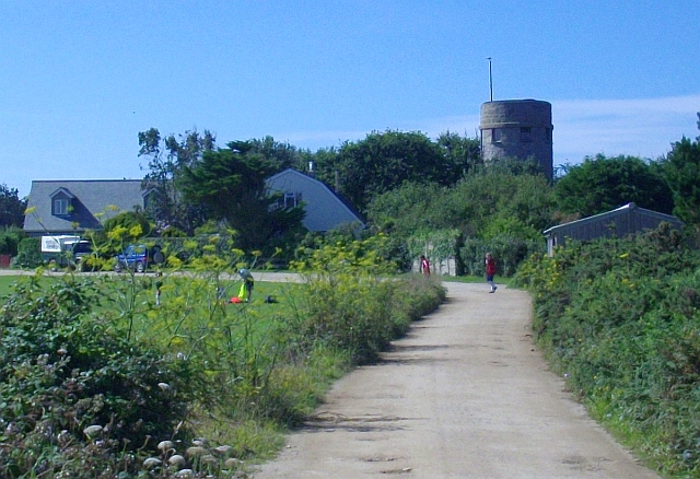 Signal station, the Garrison, St. Mary's The 16th century windmill stood here on the highest point of the Garrison until it was rebuilt as a gun tower in 1834. It was converted in the 1870s to a signal station and is marked on some maps as Lloyd's Signal Station (disused).